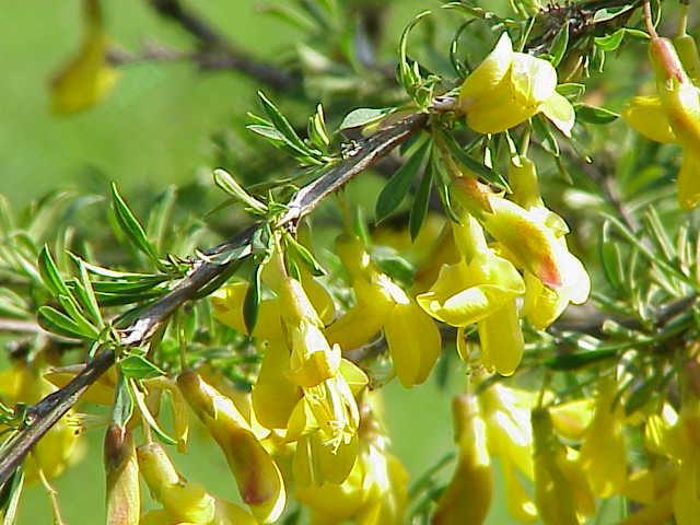 Species: Caragana pygmaea Family: Fabaceae Image No. 3